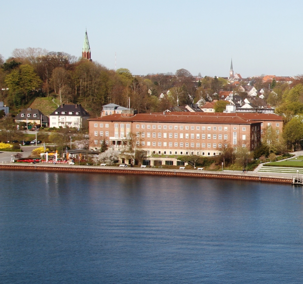 Image from the Kieler Förde, showing the building complex of the state government and state legislature of Schleswig-Holstein - the northern state of Germany. Kiel city and fjord, north Germany.